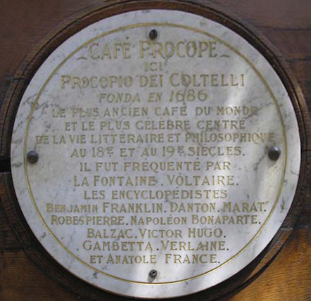 Cafe Procope plaque describing it is oldest cafe in the world. It reads: " Café Procope. Here founded Procopio dei Coltelli in 1686 the oldest coffeehouse in the world and the most famous center of the literary and philosophic life of the 18th and 19th centuries. It was frequented by La Fontaine, Voltaire and the Encyclopedistes: Benjamin Franklin, Danton, Marat, Robespierre, Napoleon Bonaparte, Balzac, Victor Hugo, Gambetta, Verlaine and Anatole France."